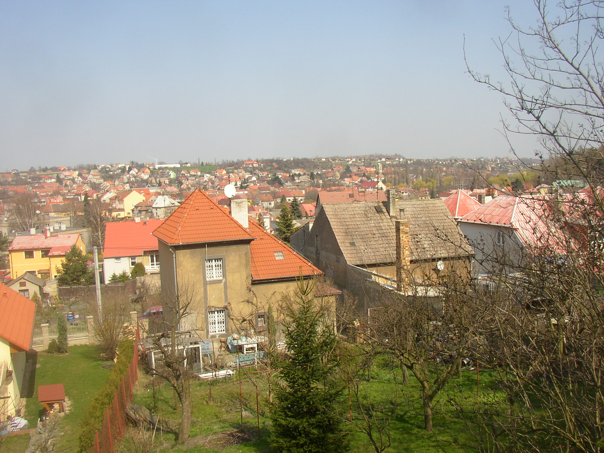 Švermov, a suburb of Kladno, Czech Republic.